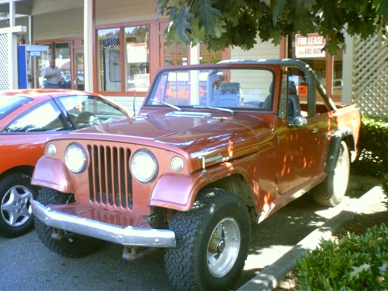 Red Jeepster without license plates